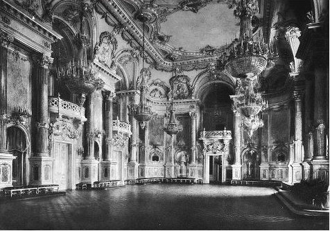 The new Grand Ballroom in the Royal Castle of Budapest.